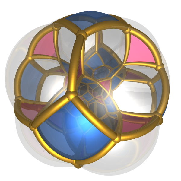 Schlegel diagram of bitruncated tessaract